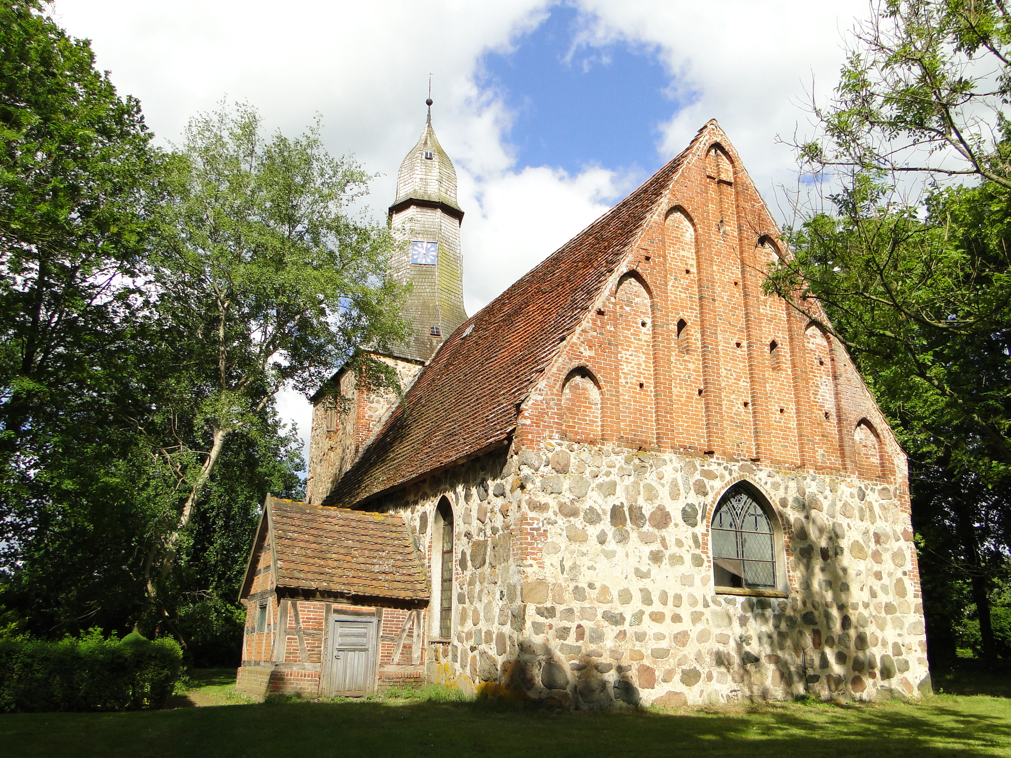 Church in Kladrum, district Ludwigslust-Parchim, Mecklenburg-Vorpommern, Germany